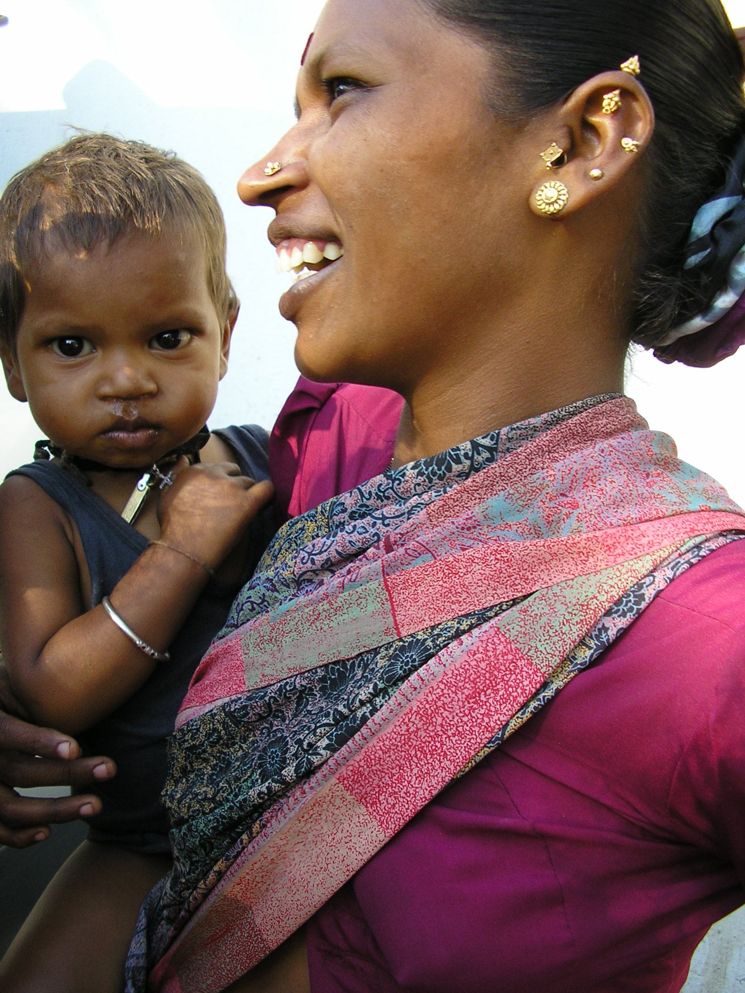 Mumbai slum mother holding child. Mother in sari, with several Indian ear piercings and a nose piercing. Photography by NGO medaptMother and child